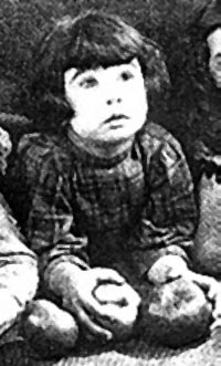 Public domain photo from Probert Encyclopaedia: screenshot or publicity still from the film The Family Secret (1924). Copyright on film has expired and has not been renewed and the film is in the public domain. As per WP:Public domain: In short: many movies are derivative works of other, pre-existing works. They enter the public domain only when the copyrights on the movie and those on the underlying base work have expired. This image meets this criteria.